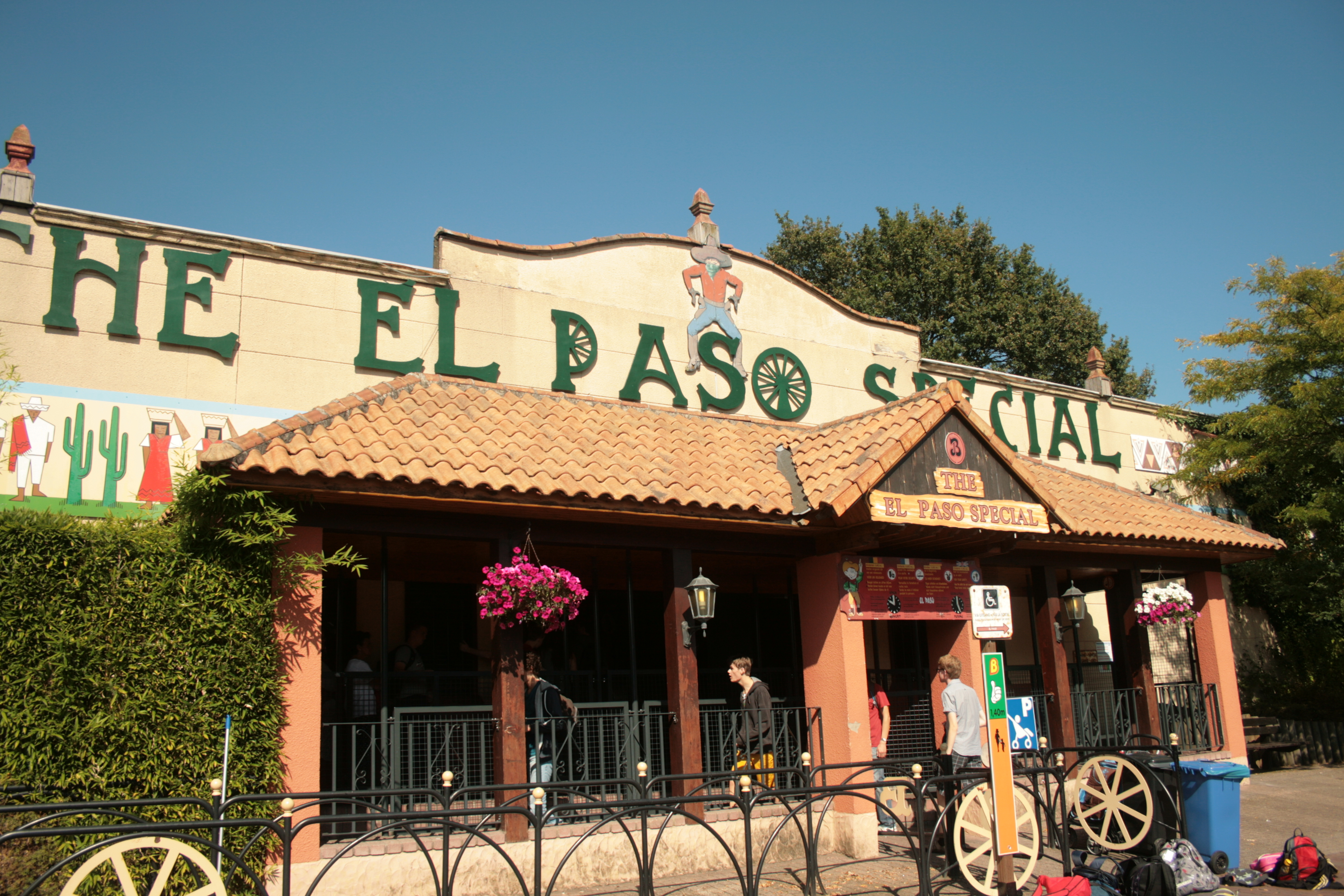 The shooting dark ride El Paso at Bobbejaanland